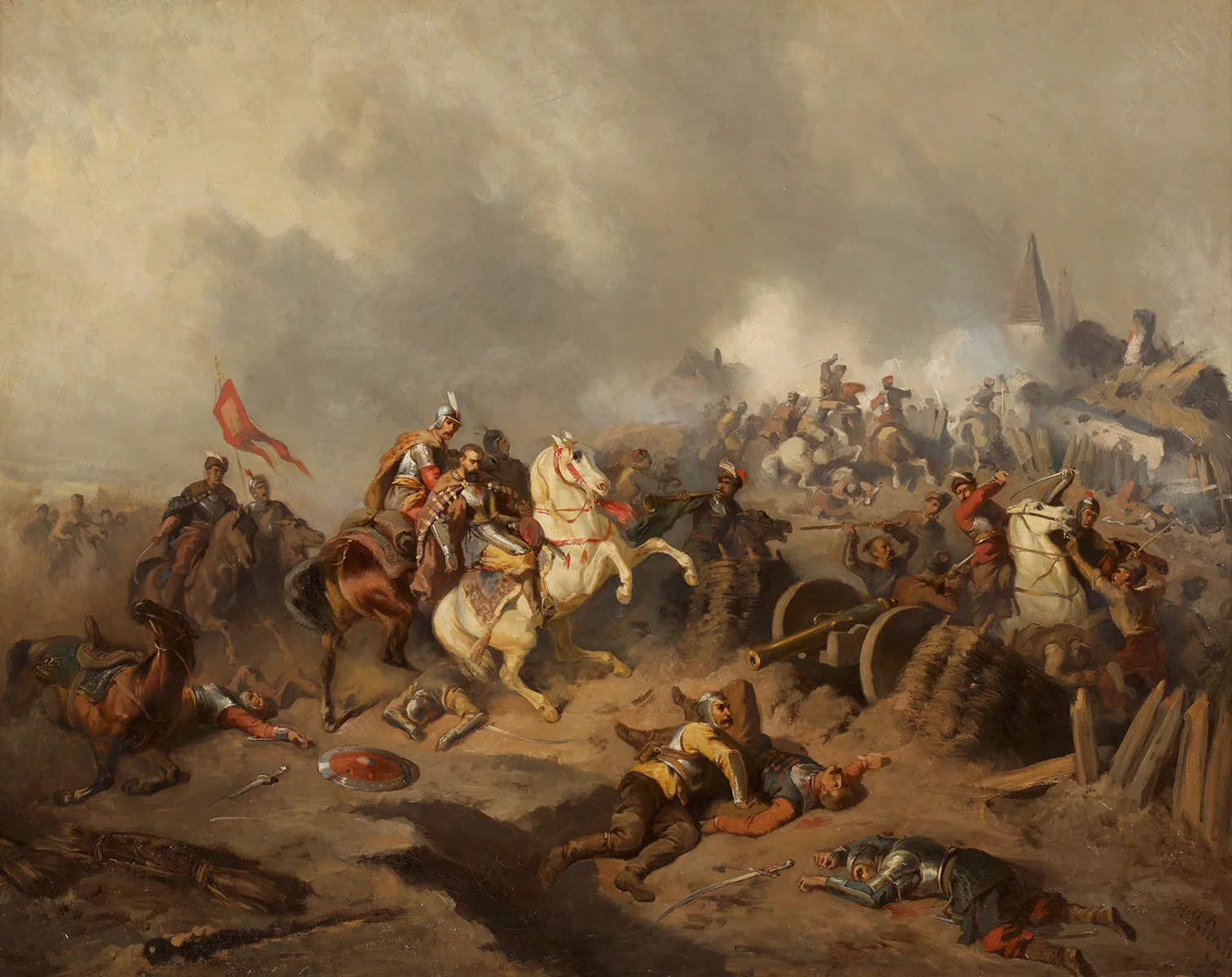 Stefan Czarnecki at Monasterzyska in 1653